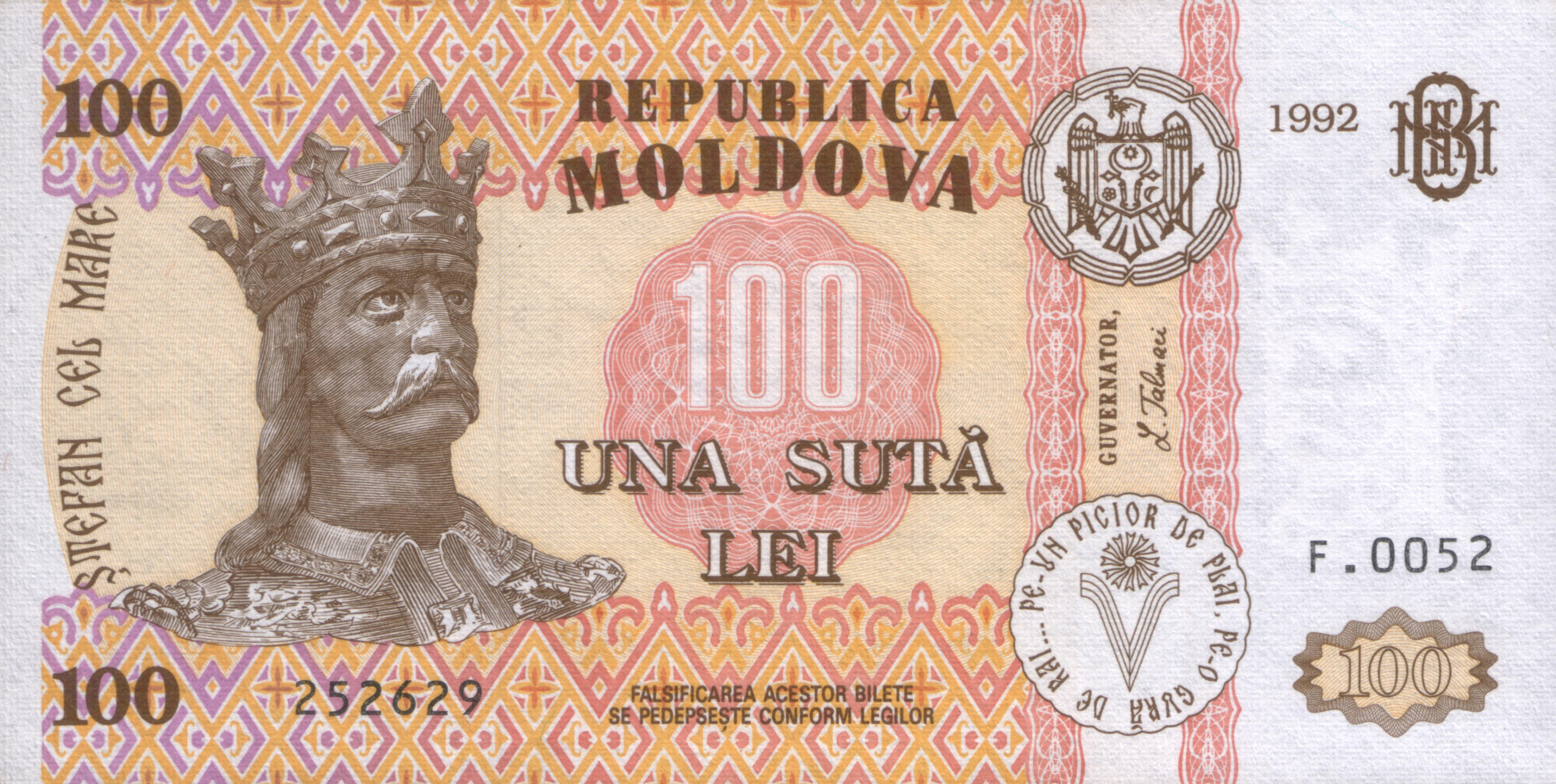 100 lei (1992)